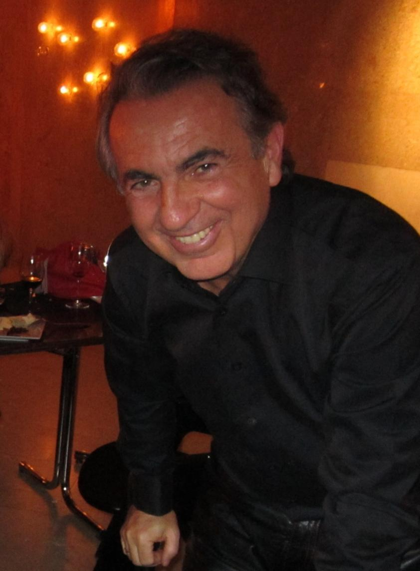 Eddie Oliva at a Håkan Sterner eventPlace: Grev Turegatan 30, Stockholm, Sweden